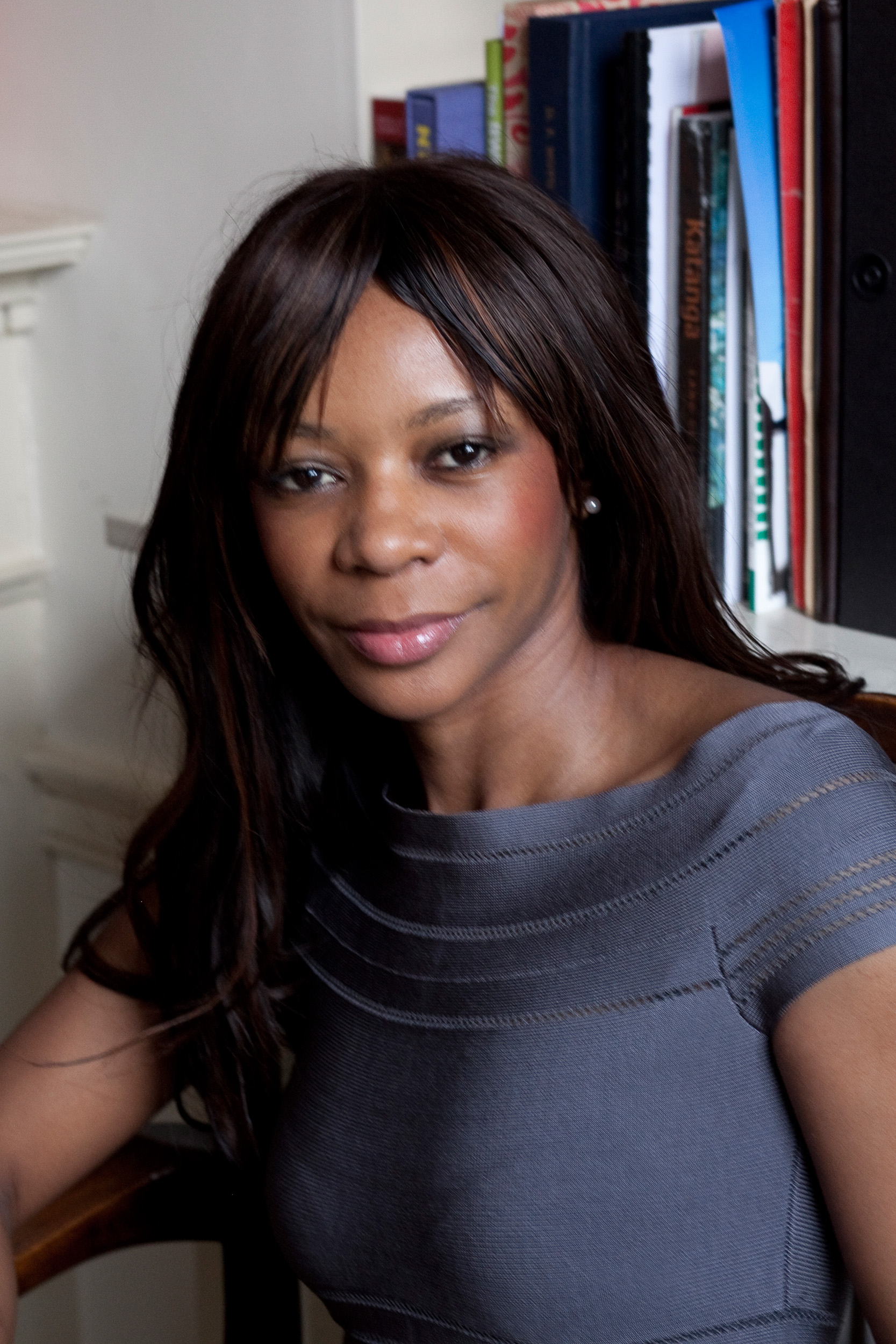 Dambisa Moyo, economist and writer from Zambia